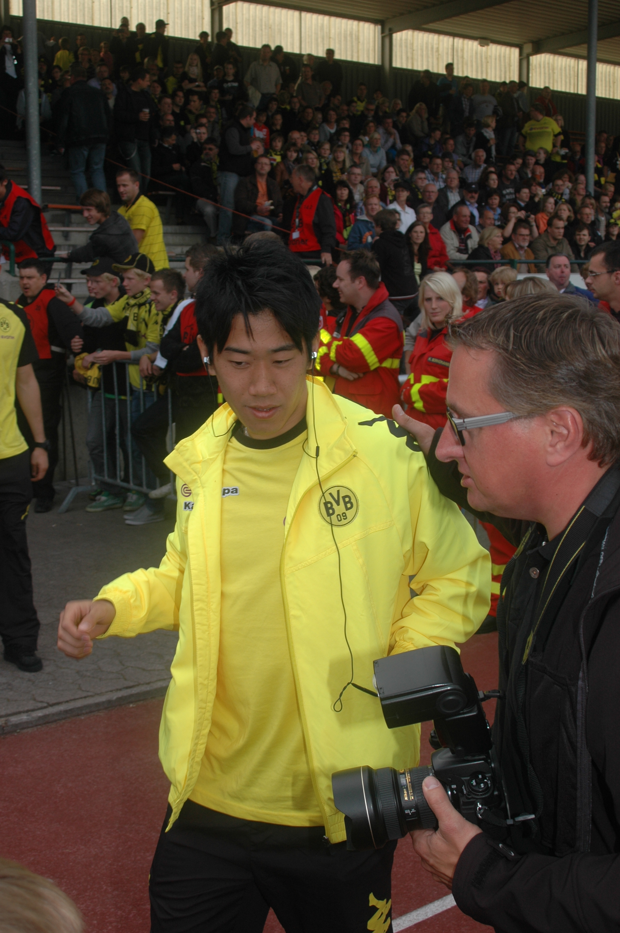 Shinji Kagawa is a Japanese footballer.